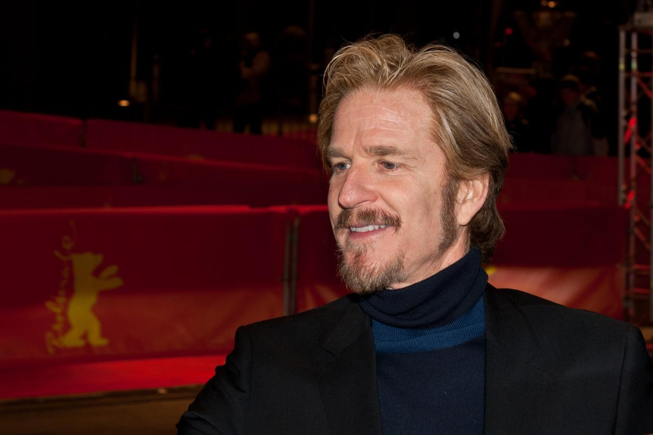 US American actor Matthew Modine, member of the jury for the Best First Feature Award, Opening of the 62nd Berlin International Film Festival